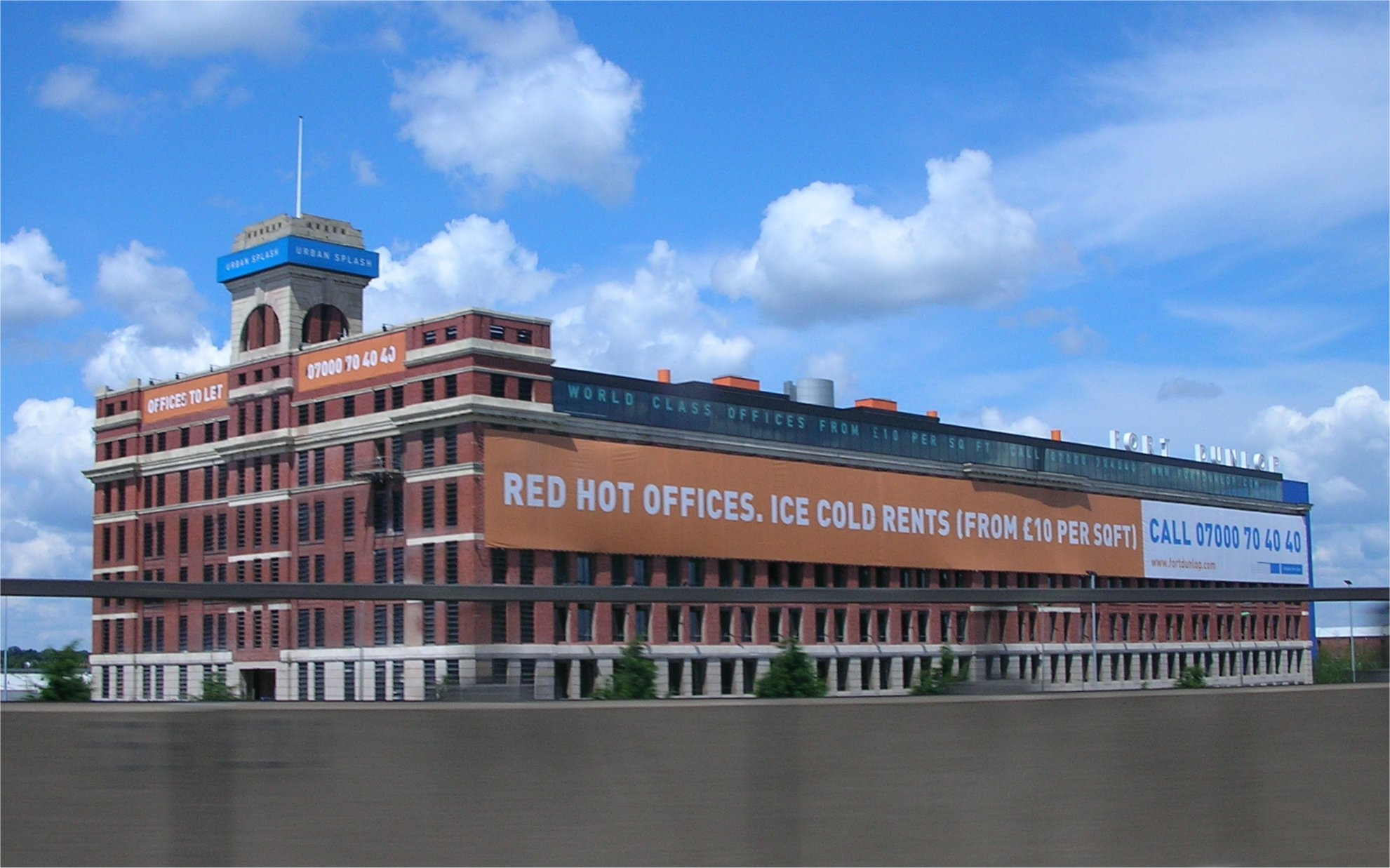 Fort Dunlop, east of Birmingham, England. Photographed from the M6 motorway by me 8 July 2007. Oosoom